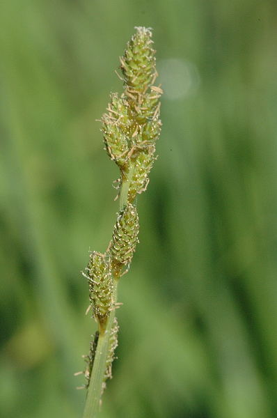 Picture taken in Commanster, Belgian High Ardennes . Species: Carex curta